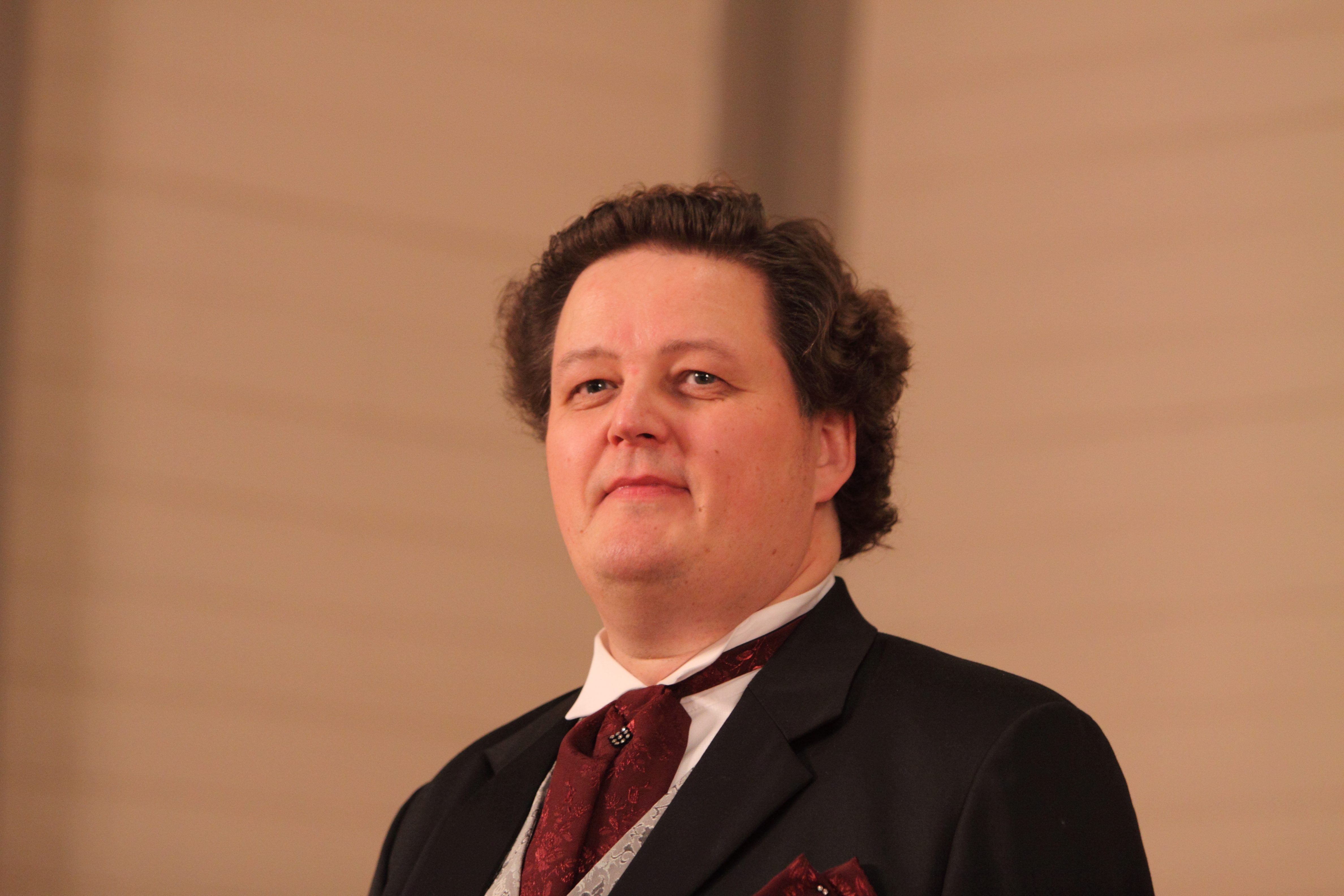 Jouni Somero finnish pianist